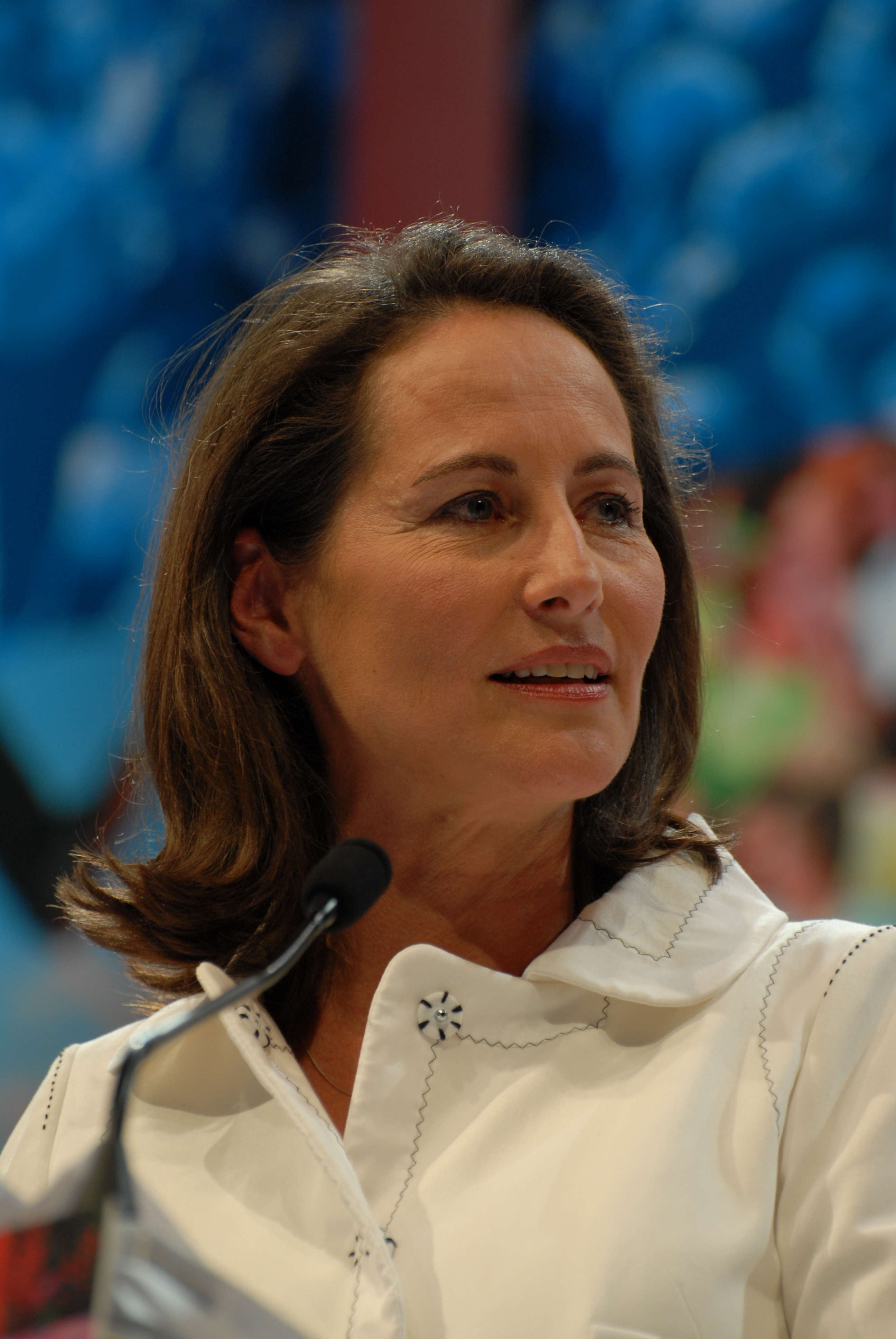 Ségolène Royal during her meeting in Toulouse on April, 19th 2007 for the 2007 presidential election.